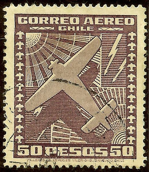 Stamp of Chile, 50 pesos, sepia, design by Alberto Matthei, 1935, Scott #C50.